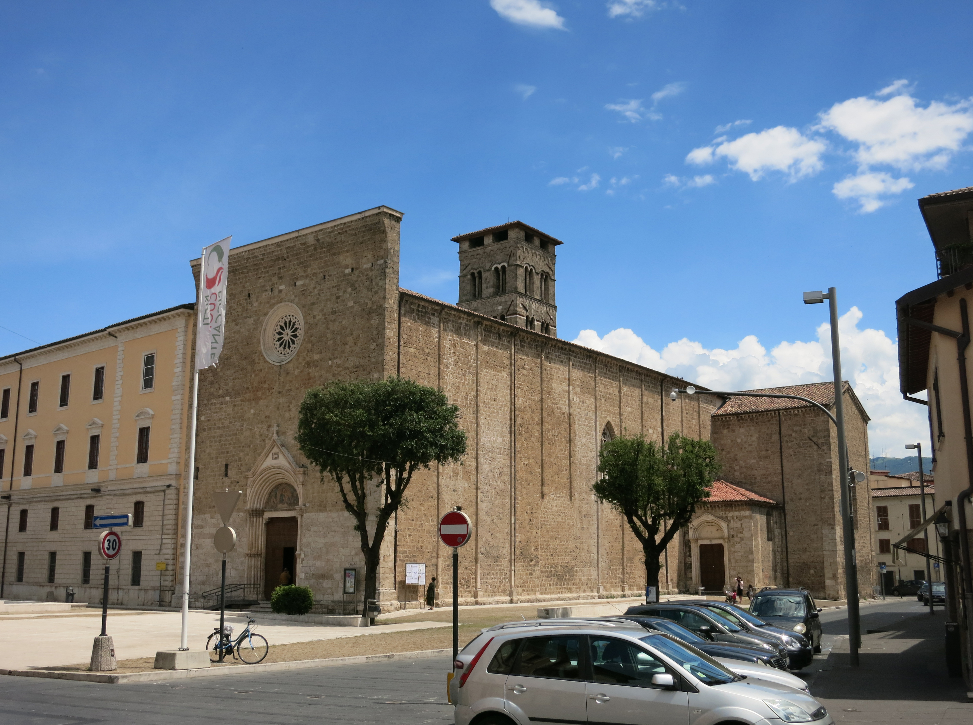 St. Augustine church - Rieti, Lazio, Italy